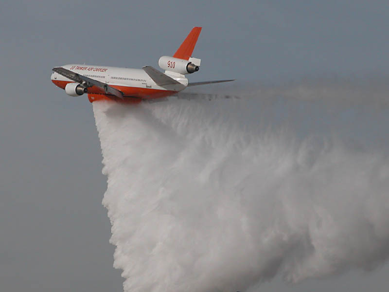 Tanker 910 dropping water over the Victorville Airport during a demonstration for Los Angeles County Fire officials on December 15, 2006.